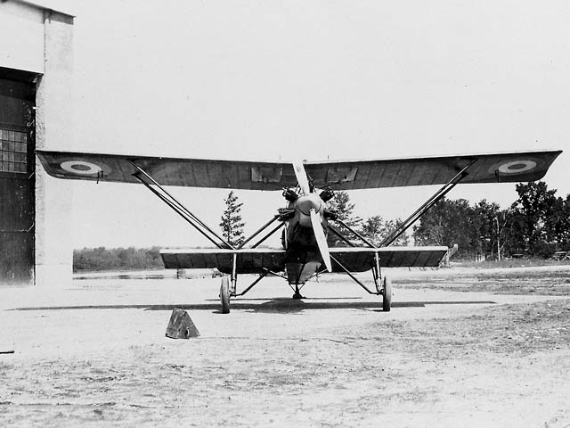 Vickers Vigil